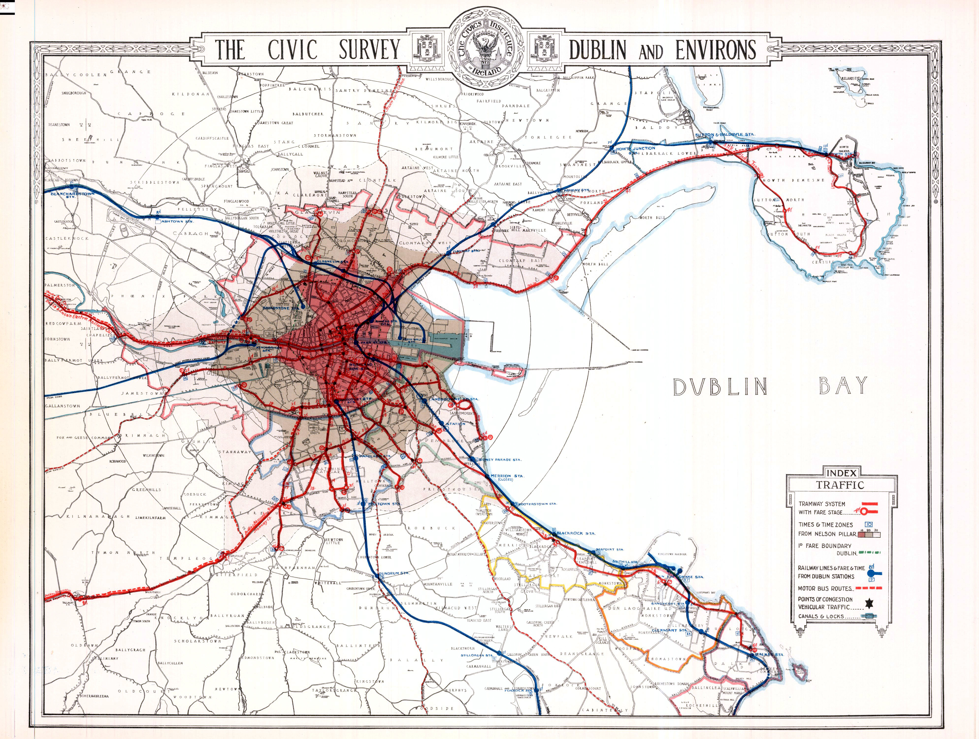 Map of Dublin, Ireland, with suburbs, administrative divisions, details of the tram systems incl routes / fares / times, train routes / stations / fares, the few bus routes of the time, canals, and more.